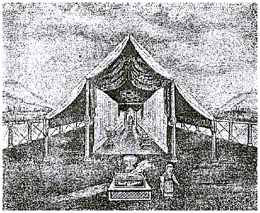 the Biblical Tabernacle